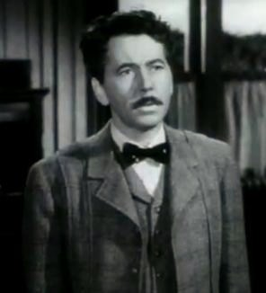 Alexander Knox in the film Sister Kenny (1946) - trailer (cropped screenshot)